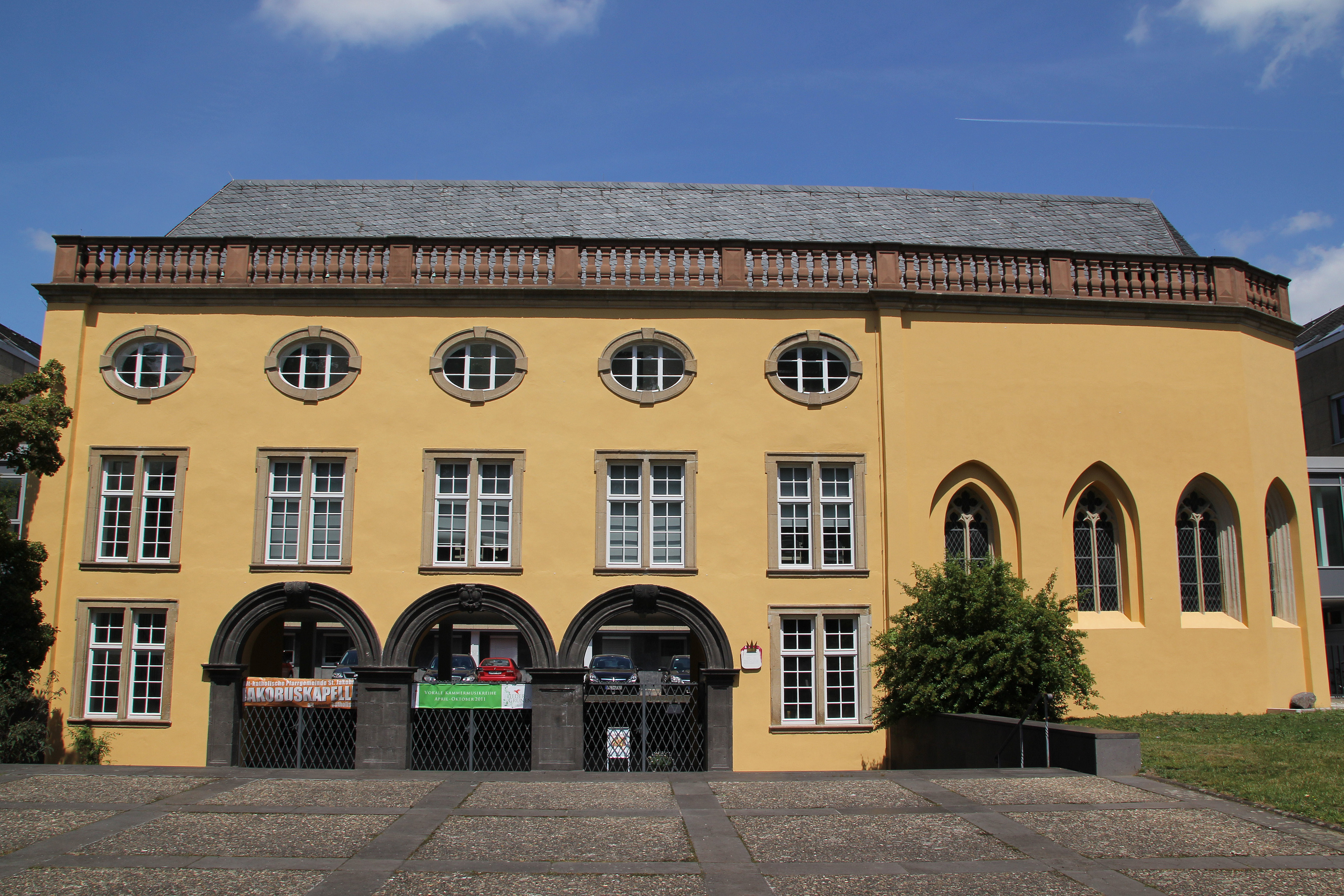 St. Jakobus in Koblenz